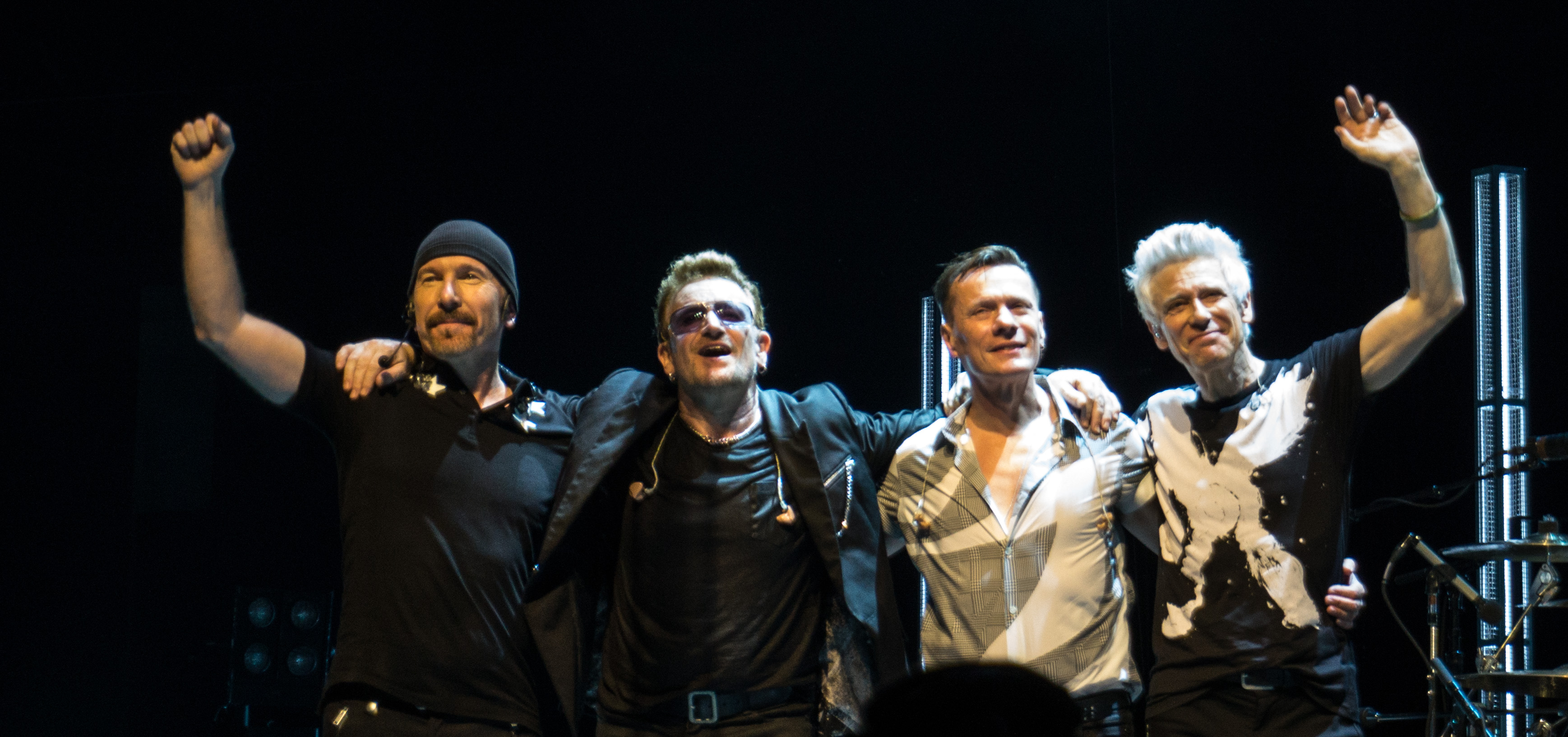 Members of U2 take a curtain call after a performance in Glasgow on November 7, 2015